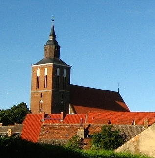 Church St. Peter in Altentreptow (Vorpommern, Landkreis Demmin, Germany).